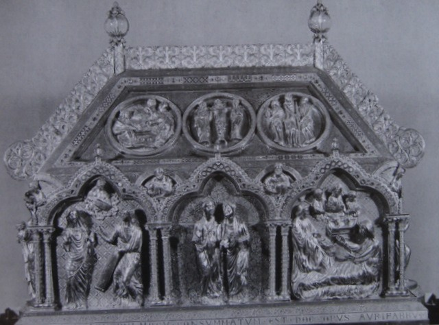 Reliquary chest of Our Lady (chasse de Notre-Dame) by Nicholas of Verdun. Cathedral treasury, Tournai, Belgium